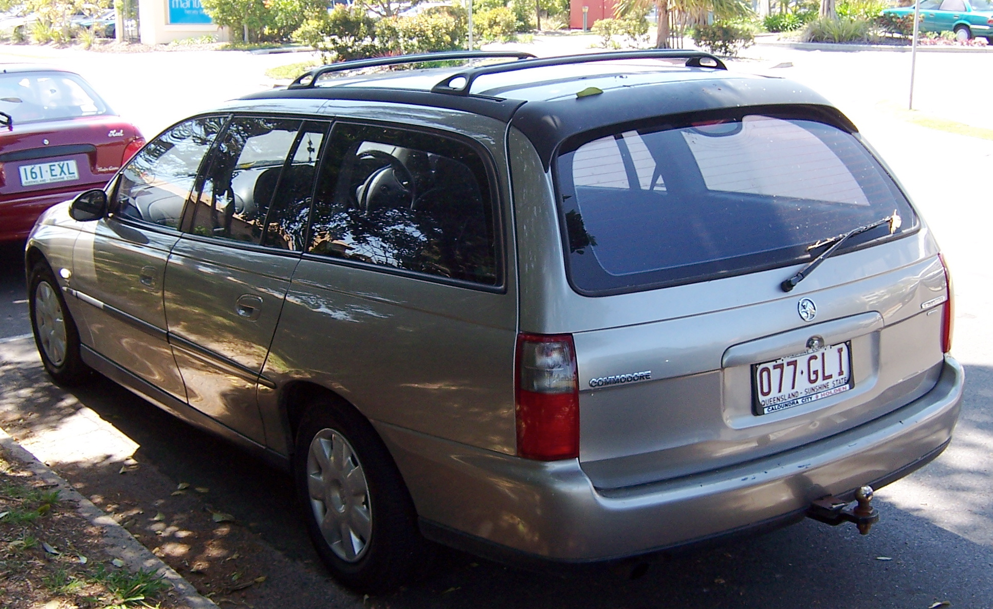 2002 Holden Commodore (VX II) Executive station wagon. Photographed in Hervey Bay, Queensland, Australia. Vehicle registration enquiry resultsJurisdictionQueenslandRegistration077GLIChassis code6H8VXK35A2L814820 Year of manufacture2002